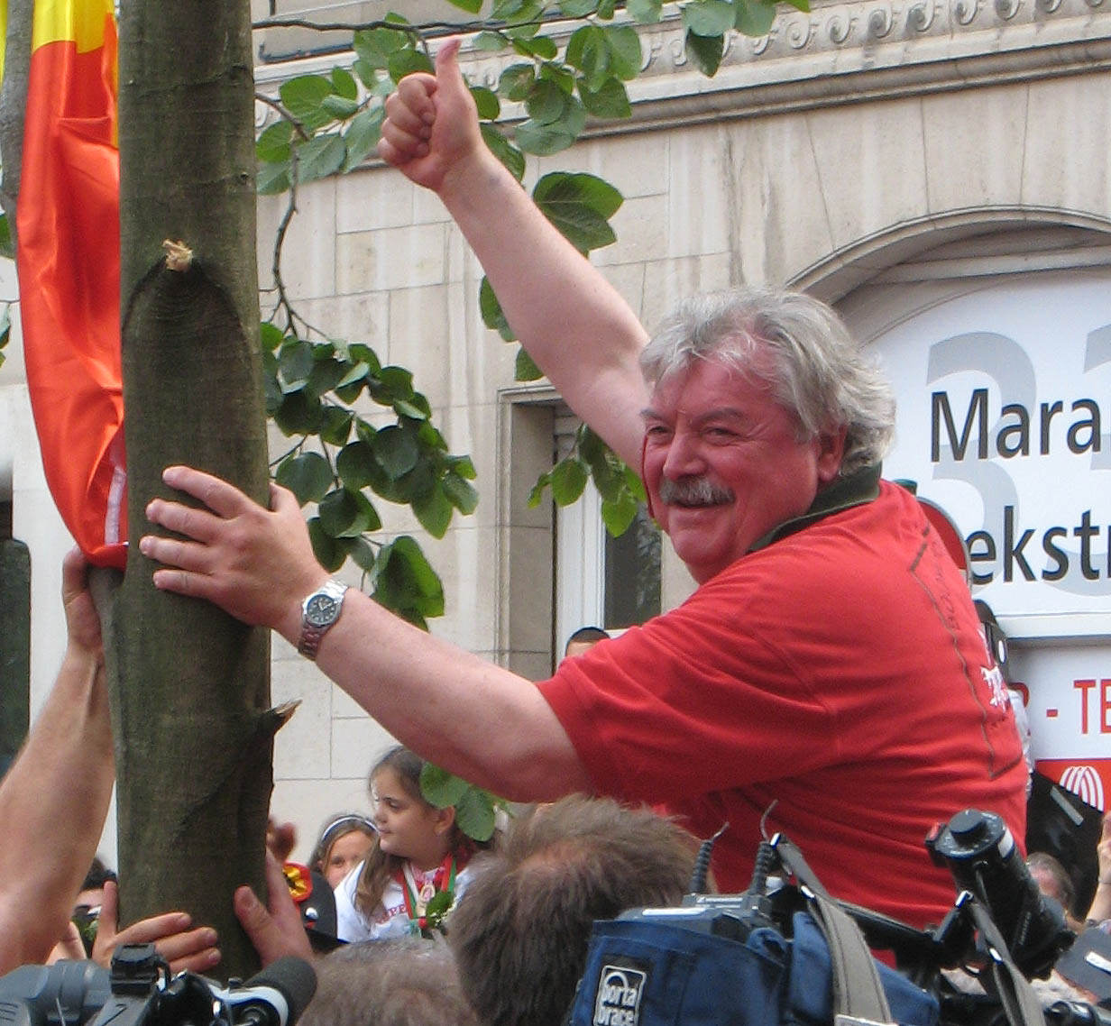 Freddy Thielemans at the planting of the Meiboom, August 9, 2009